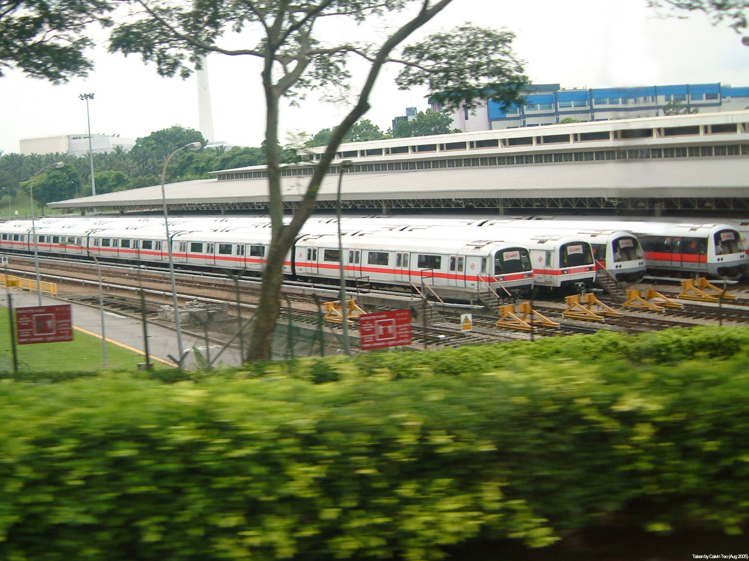 SMRT trains at Ulu Pandan MRT Depot, located between Clementi MRT Station and Jurong East MRT Station in Singapore.